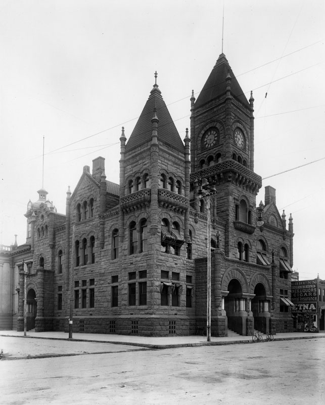 Exterior of the county courthouse after an extension was added in 1898 by Charles H. Jones. The Main entrance is on 'E' Street, beneath the clock tower. On the left is Court Street with the old 1875 courthouse adjacent to the new structure. On the left is the County Hall of Records building.